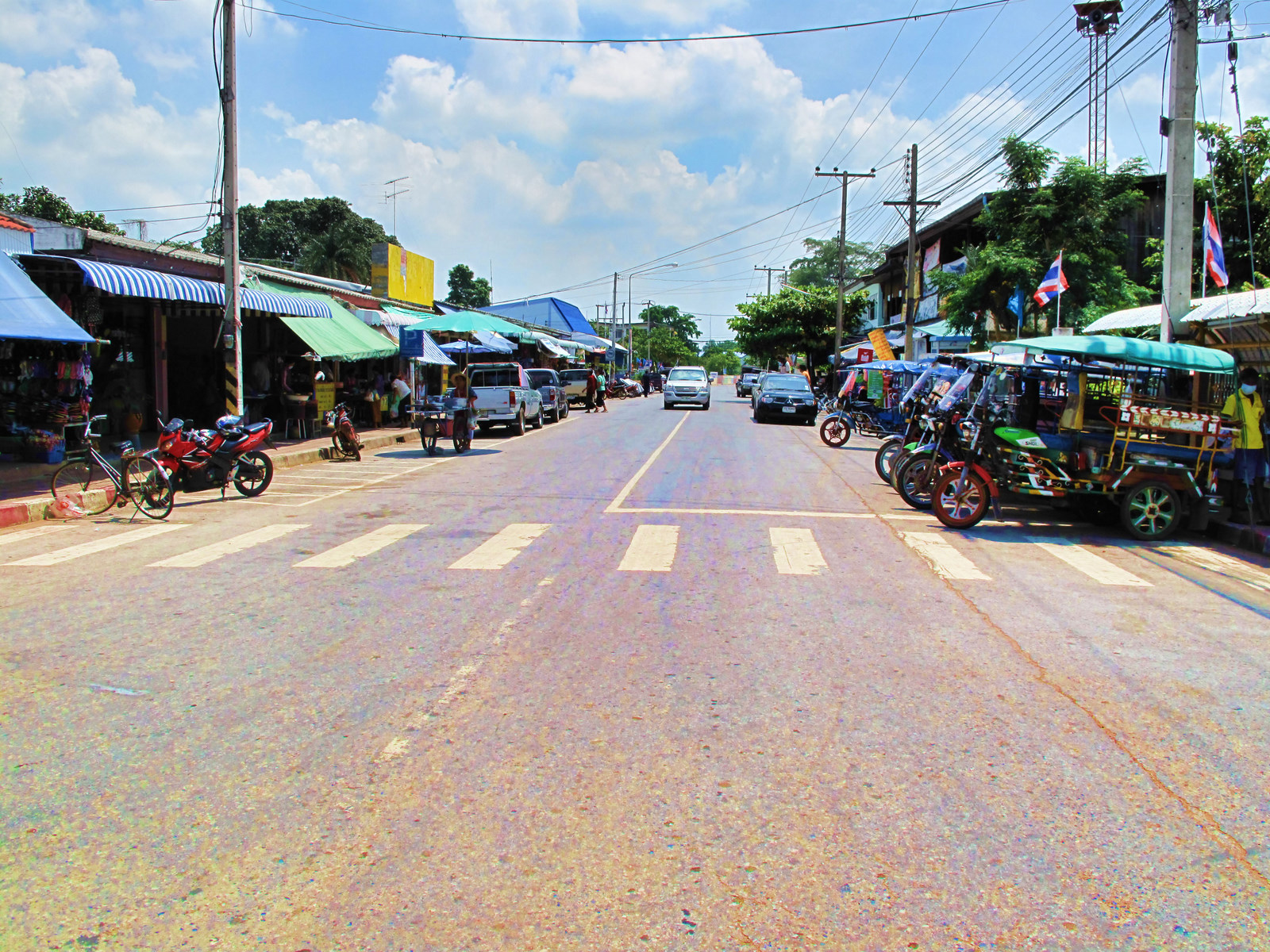 Amphoe Non Sung 30160, Nakhon Ratchasima Province, Thailand, Main Road